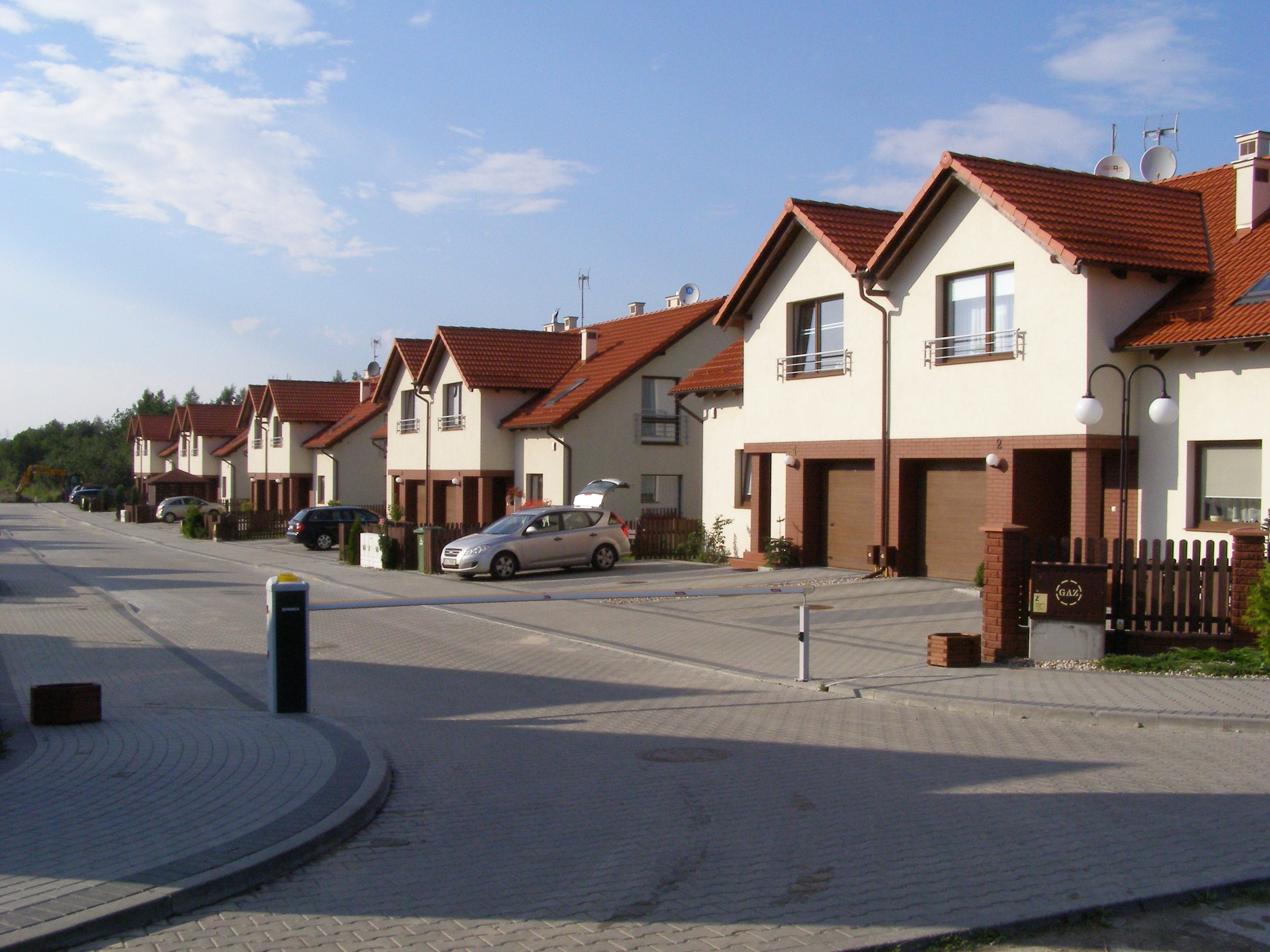 Kowale - Arkadia Park neighbourhood